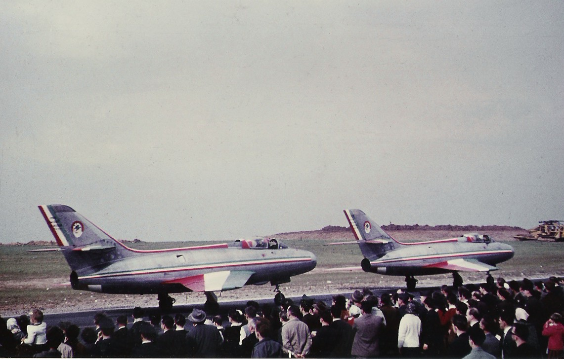 Two Dassault Mystère IV A of the French Armee de l'Air at Bitburg Air Base, Rhineland-Palatinate (Germany), in the early 1960s. The aircraft belonged to the Patrouille de France, which became an official aerobatics team only in 1964, flying the Fouga Magister. Note how near the spectators could get in comparison to the 21st Century, during which safety standards have prohibited the close proximity of the public to air displays.